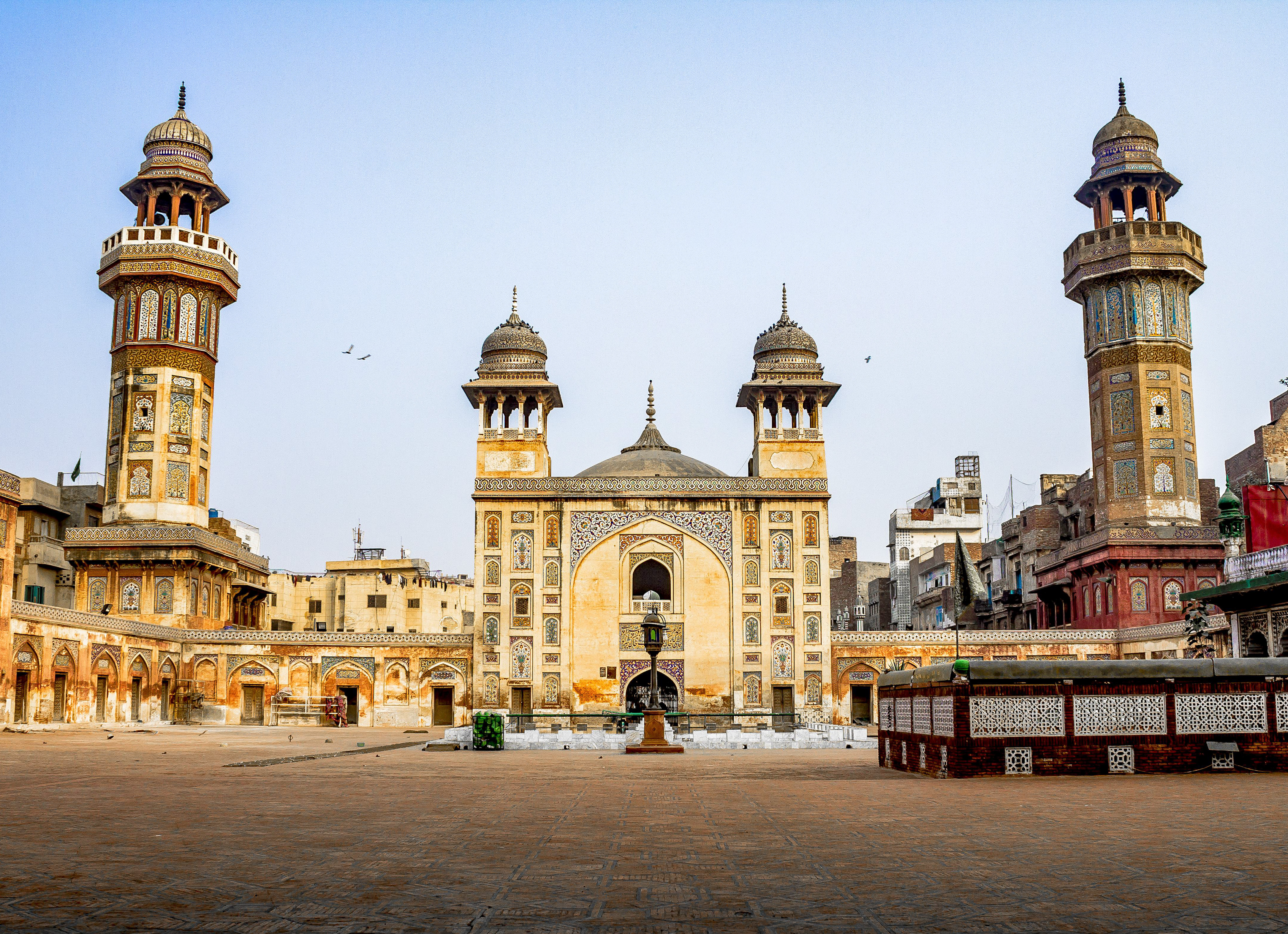 Wazir Khan Mosque This is a photo of a monument in Pakistan identified as the PB-100